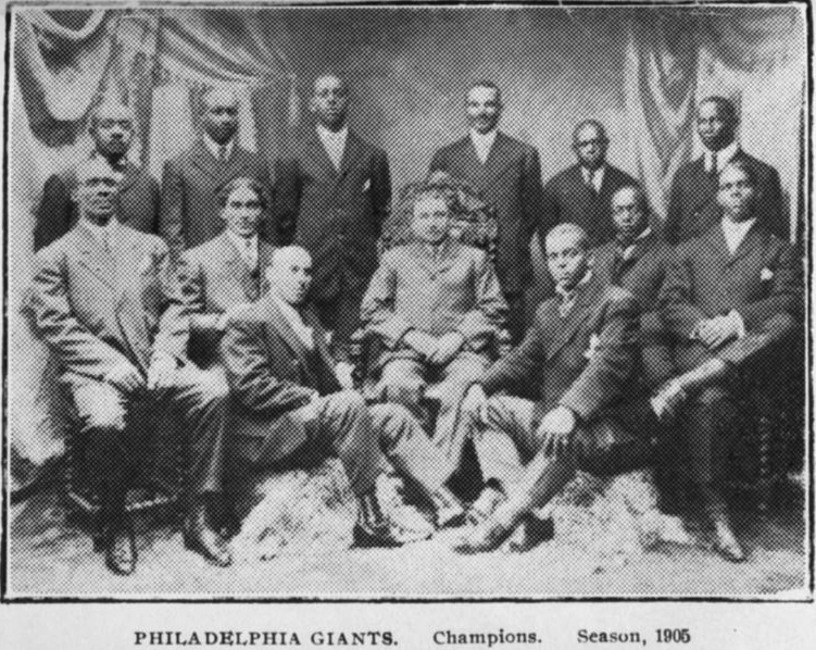 the Negro League's Philadelphia Giants, 1905 colored champions. Image courtesy of the New York Public Library . Image originally from Sol White's official base ball guide; edited by H. Walter Schlichter. .